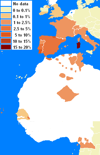 Derived from svg map Image:BlankMap-World3.svg; Map shows frequency distribution for Cw5-B18 in the Old world, Areas with no evidence of frequency not shown.